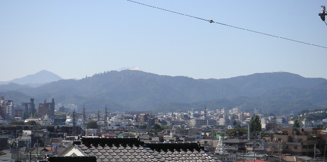 Mount Takao as seen from the ESE in Hachioji, Tokyo, Japan.